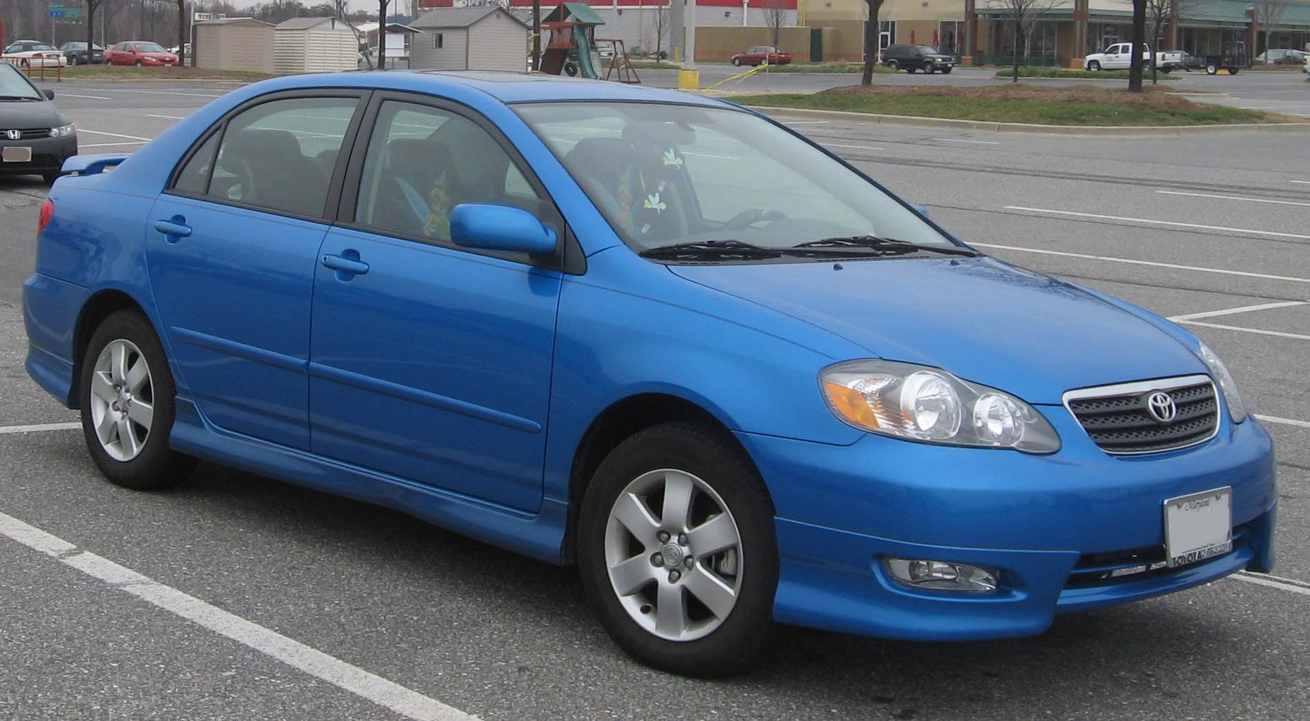 2007-2008 Toyota Corolla photographed in Clinton, Maryland, USA.